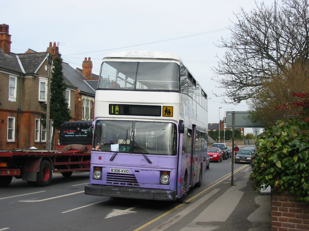 Dunn Line B306KVO an Easr Lancs-bodied Volvo Citybus new to Nottingham City Transport